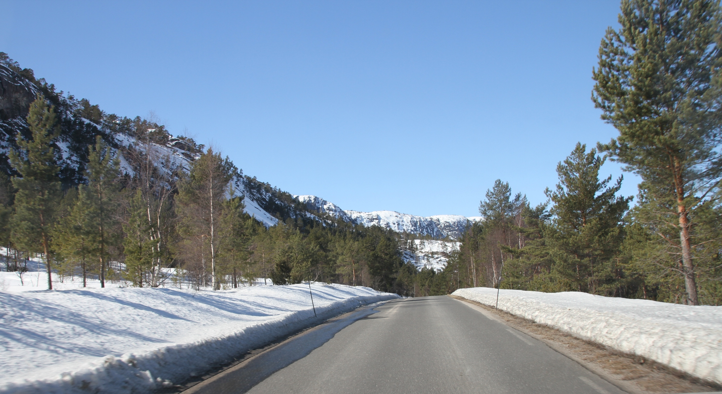 Image from the southwestern shore of the Nisser lake (Gaurak area), in municipality of Nissedal - southern Telemark county - Norway